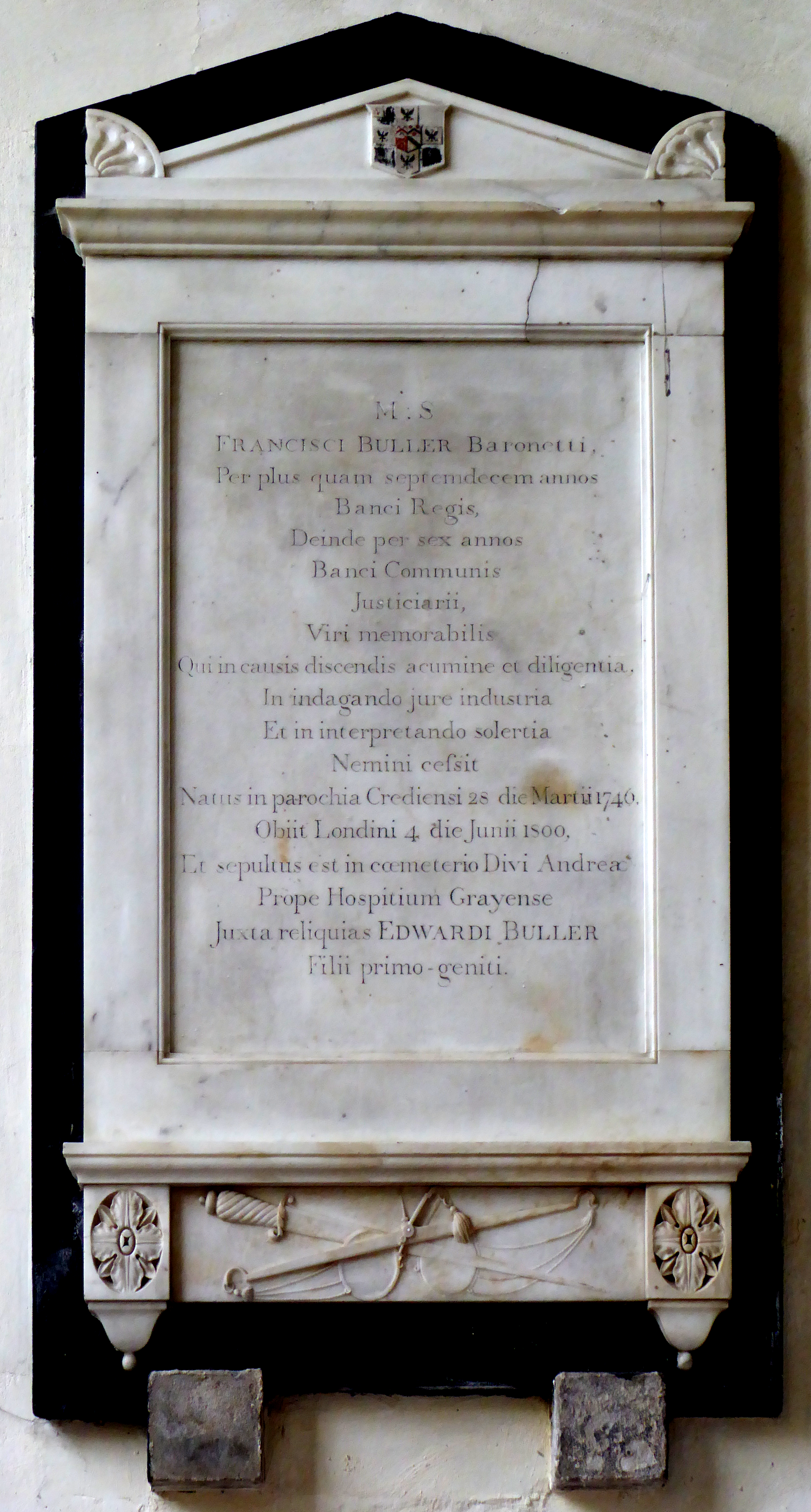 Mural monument in the Buller Chapel of St Mary's Church, Brixham, to the judge Sir Francis Buller, 1st Baronet (1746-1800) of Churston Court in the parish of Churston Ferrers, of nearby Lupton in the parish of Brixham, and of Prince Hall on Dartmoor, all in Devon. Below sculpted in low relief is a sword of justice crossed by a set of scales of justice. At top is shown a shield of the Buller arms with inescutcheon of pretence of Yarde (of 4 quarters) for his wife Susanna Yarde (1740–1810), only daughter and sole heiress of Francis Yarde (1704–1750) of Ottery St Mary in Devon, the fifth son of Edward Yarde (1669–1735), of Churston Court in the parish of Churston Ferrers, a Member of Parliament for Totnes in Devon 1695–1698. Susanna was the niece and heiress of John Yarde (1702–1773)[11] of Churston Court. Inscribed in Latin as follows: M(emoriae) S(acrum) Francisci Buller Baronetti per plus quam septemdecem annos Banci Regis deinde per sex annos Banci Communis Justiciarii viri memorabilis qui in causis discendis acumine et diligentia in indagando jure industria et in interpretando solertia nimini cessit. Natus in parochia Crediensi 28 die Martii 1746 obiit Londini 4 die Junii 1800 et sepultus est in caemeterio Divi Andrea prope Hospitium Grayense juxta reliquias Edwardi Buller filii primo-geniti which may be translated as: "Sacred to the memory of Francis Buller, Baronet, for more than seventeen years a Justice of the King's Bench, thereafter for six years of the Common Pleas, a memorable man who in cases to be decided ceded to no man in sharpness and diligence in researching the law and in industry and interpretation with skilfulness. He was born in the parish of Crediton on the 28th day of March 1746 he died in London on the 4th day of June 1800 and was buried in the cemetery of St Andrew's near Gray's Inn next to the remains of Edward Buller his first-born son".